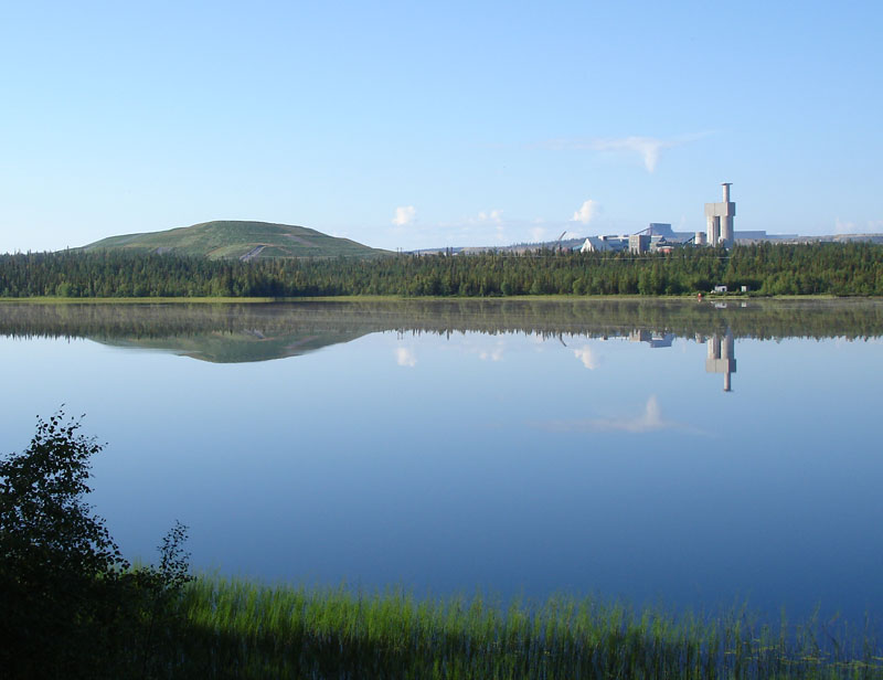 Aitik copper mine viewed from northeat, with lake Sakajärvi in the foreground.